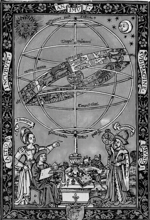 A woodcut portraying Claudius Ptolemy (Ptolomeus in Latin) observing a huge armillary sphere and the heavens using an astrolabe and being instructed by Astrologia, the Greek goddess of Astrology, while a scribe records his measurements.